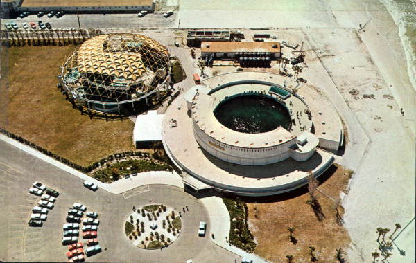 Color postcard with inscription Aerial view of the Aquatarium - Saint Petersburg, Florida